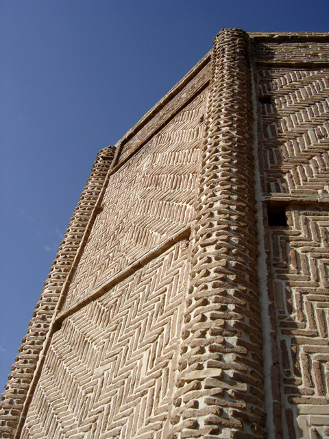 Shebeli Tower, Damavandm, Tehran, Iran. Late Samanid era.